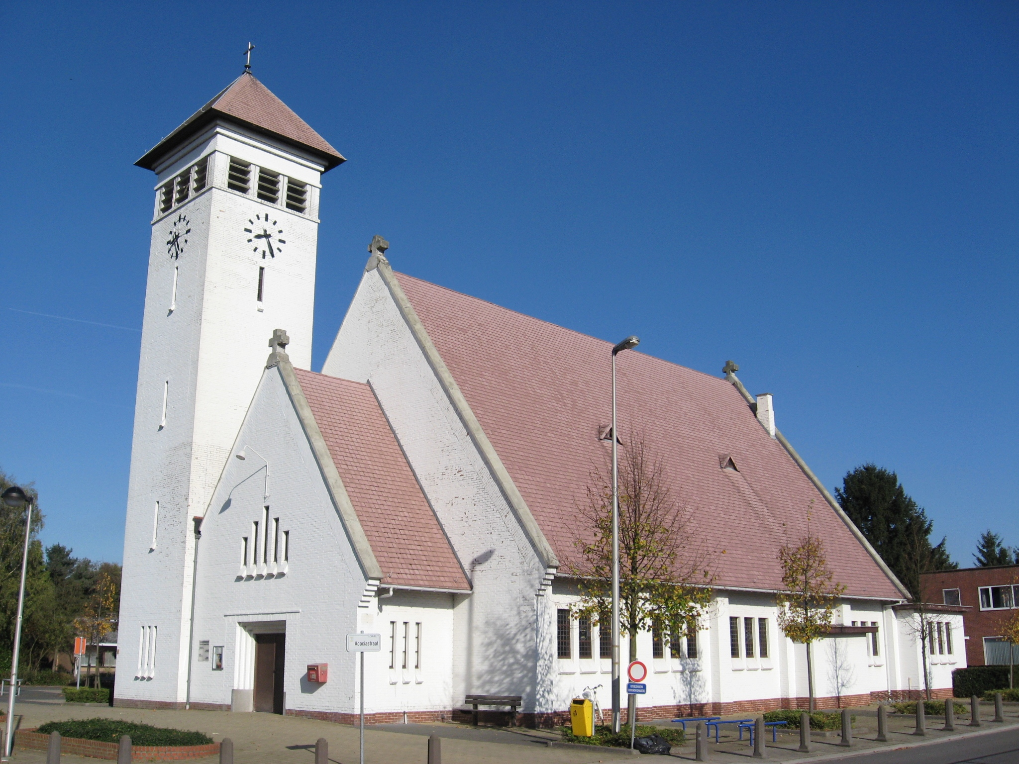 Church of Our Lady of Lourdes in Lommel (Heide-Heuvel), Limburg, Belgium